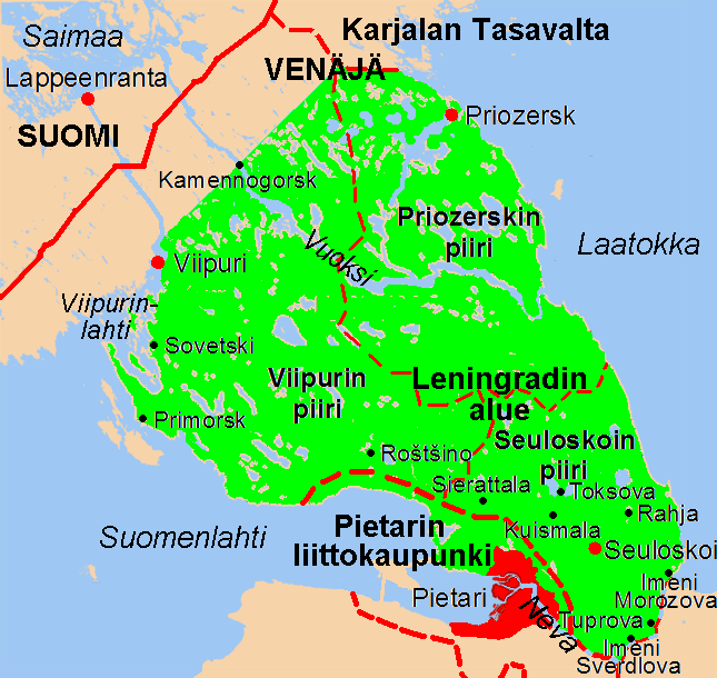 Finnish map of Karelian Isthmus